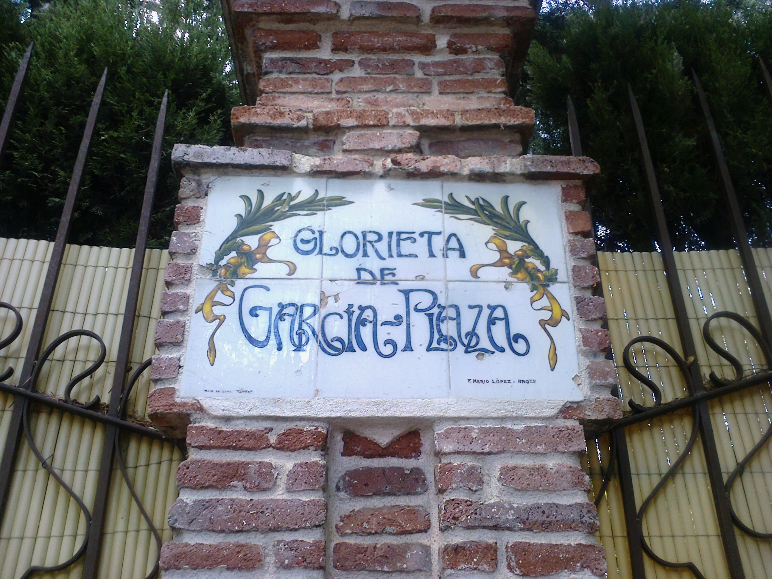 Plaque of García Plaza´s square